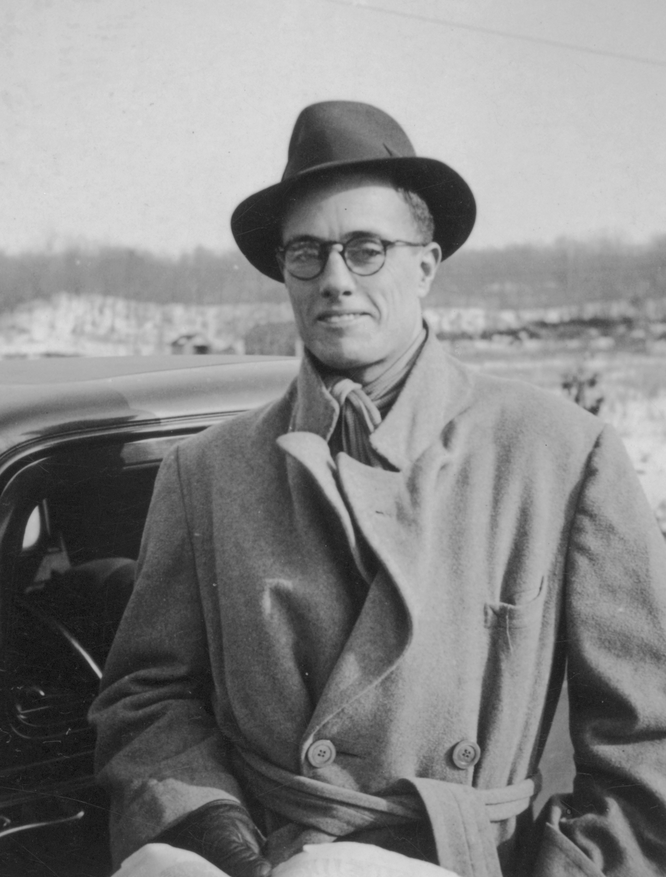 Photograph of John Lomax Jr. Originally from the Lomax Collection from Library of Congress, cropped by me.